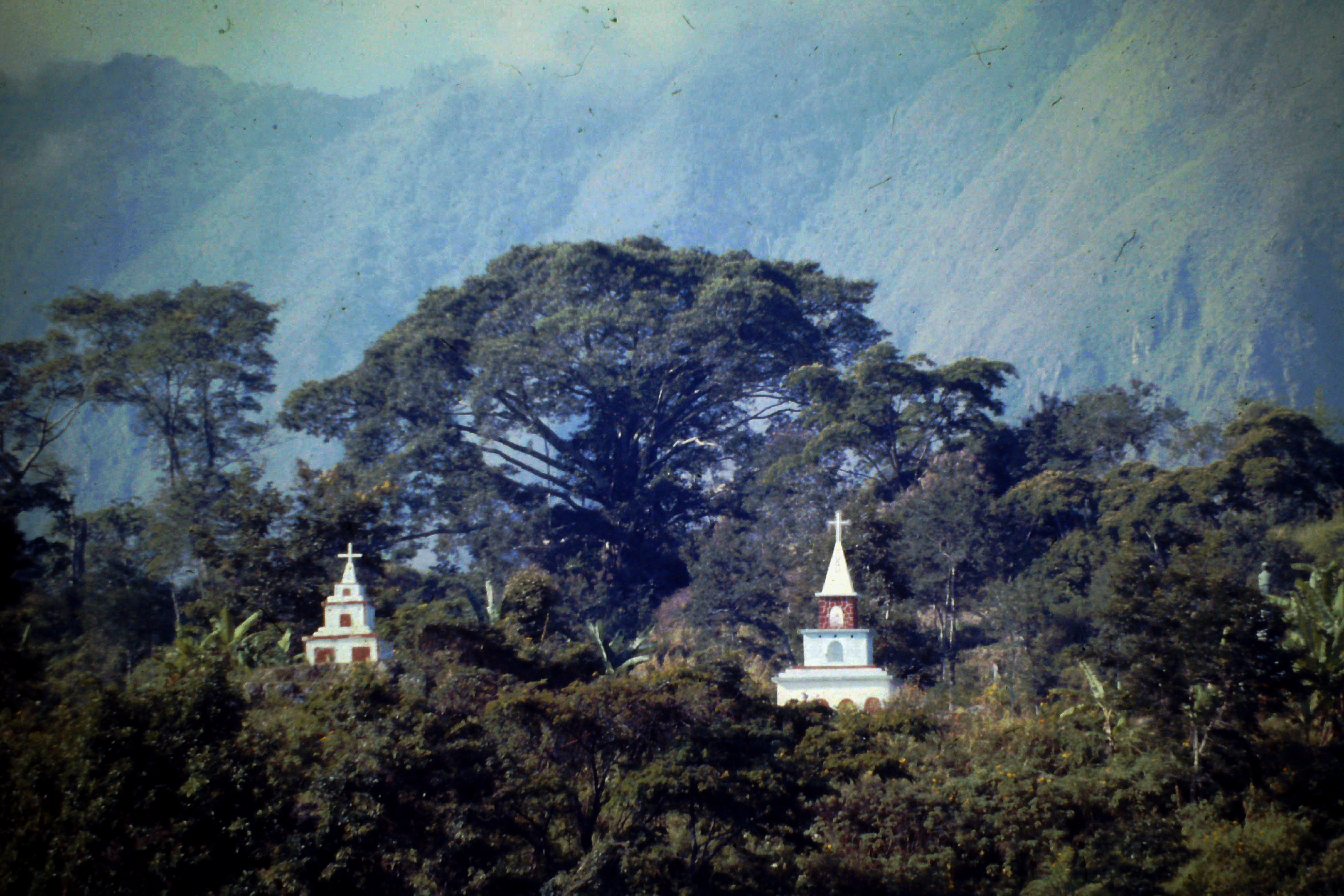 I took these files myself on a trip to Sumatra in 1979